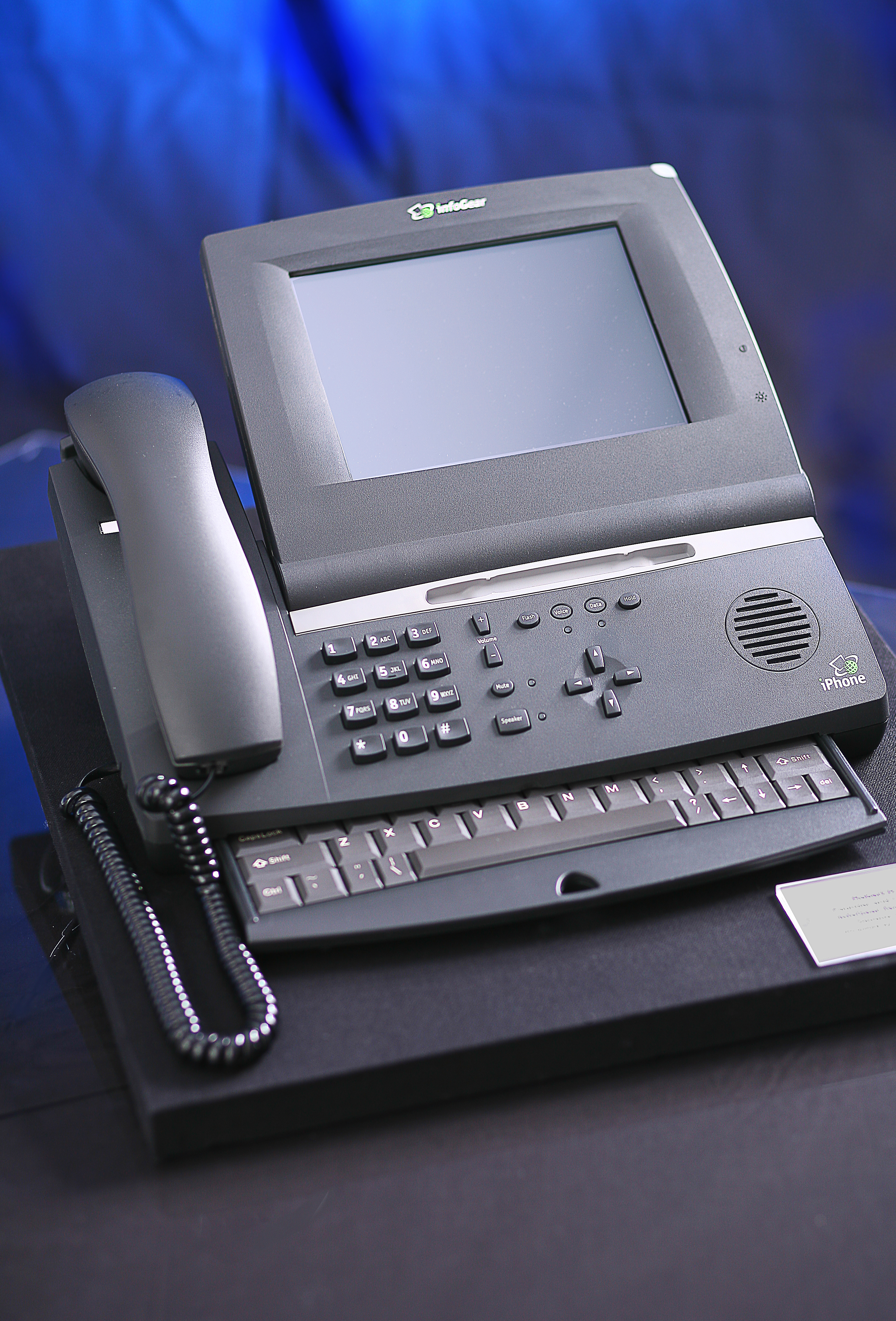 The first ever iPhone created by InfoGear.